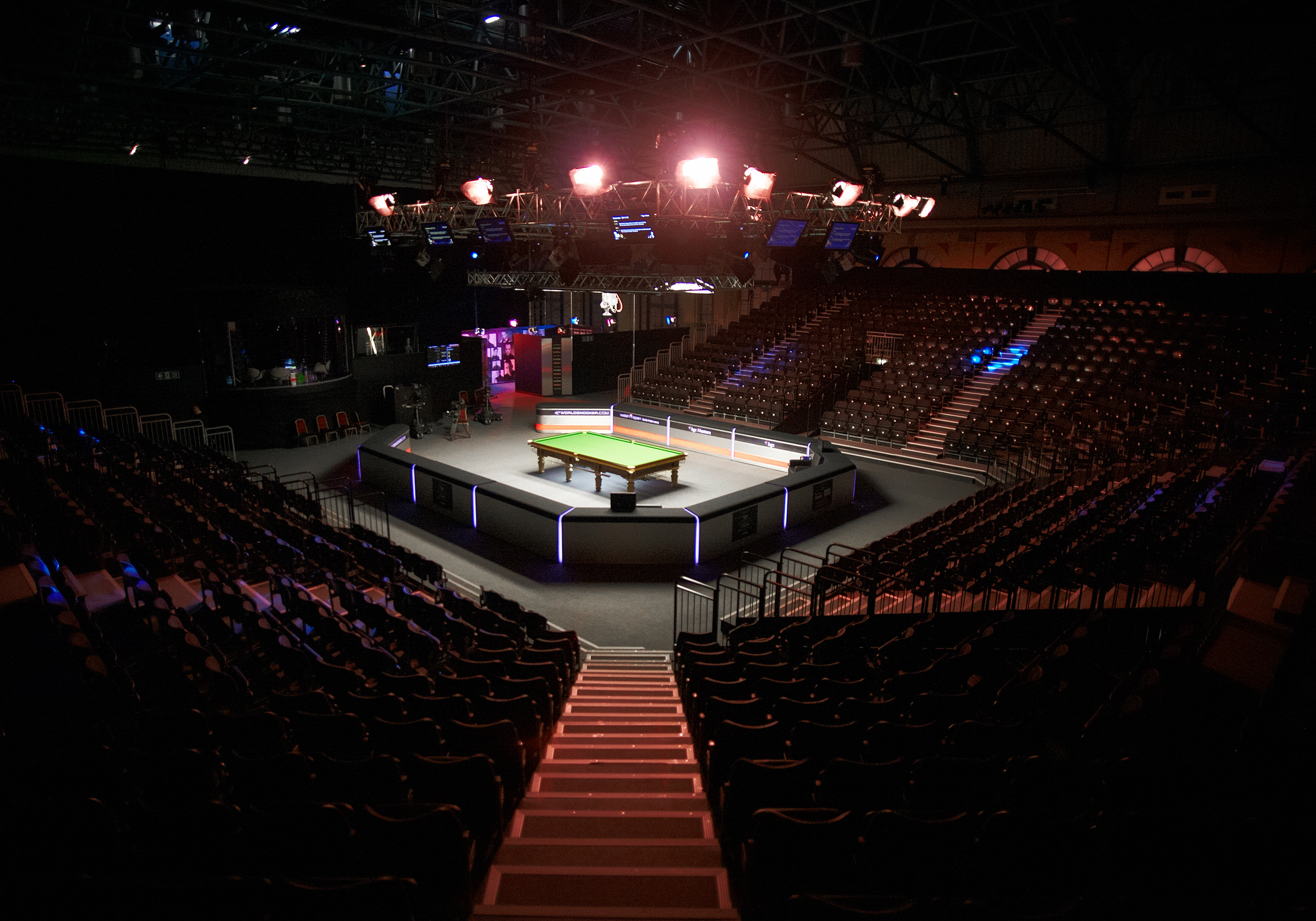 London Masters 2012 Arena in Alexandra Palace